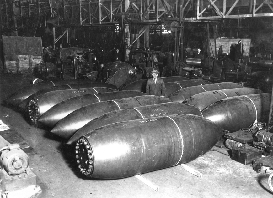 “Grand Slam” Bombs awaiting delivery, 7 January 1945 (TWAM ref. 1027/5178). ‘Workshop of the World’ is a phrase often used to describe Britain’s manufacturing dominance during the Nineteenth Century. It’s also a very apt description for the Elswick Works and Scotswood Works of Vickers Armstrong and its predecessor companies. These great factories, situated in Newcastle along the banks of the River Tyne, employed hundreds of thousands of men and women and built a huge variety of products for customers around the globe. The Elswick Works was established by William George Armstrong (later Lord Armstrong) in 1847 to manufacture hydraulic cranes. From these relatively humble beginnings the company diversified into many fields including shipbuilding, armaments and locomotives. By 1953 the Elswick Works covered 70 acres and extended over a mile along the River Tyne. This set of images, mostly taken from our Vickers Armstrong collection, includes fascinating views of the factories at Elswick and Scotswood, the products they produced and the people that worked there. By preserving these archives we can ensure that their legacy lives on. (Copyright) We're happy for you to share this digital image within the spirit of The Commons. Please cite 'Tyne & Wear Archives & Museums' when reusing. Certain restrictions on high quality reproductions and commercial use of the original physical version apply though; if you're unsure please .